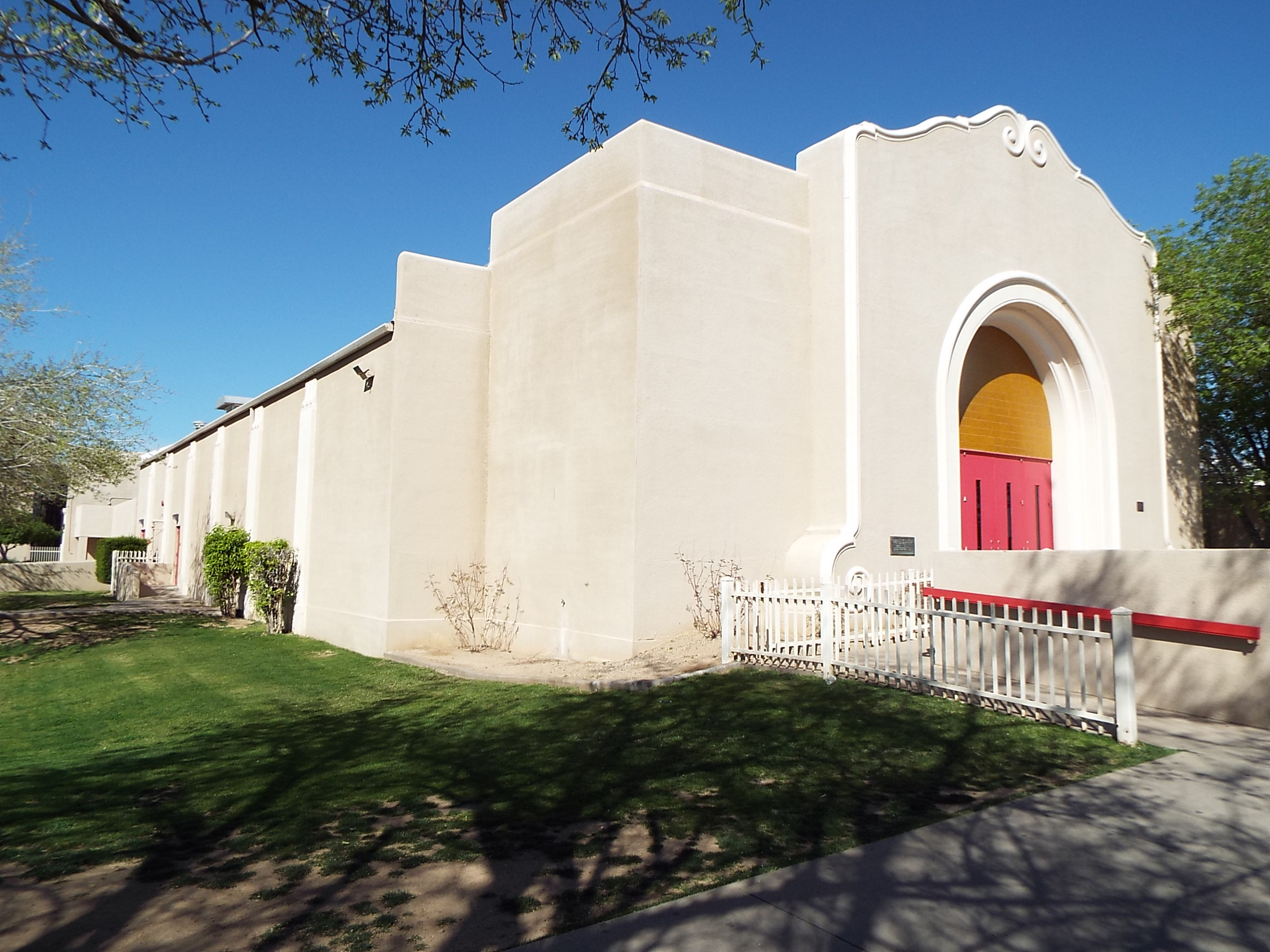 The Glendale High School Auditorium (Glendale, Arizona) was built in 1912. This is the original high school building. It is listed in the National Register of Historic Places.